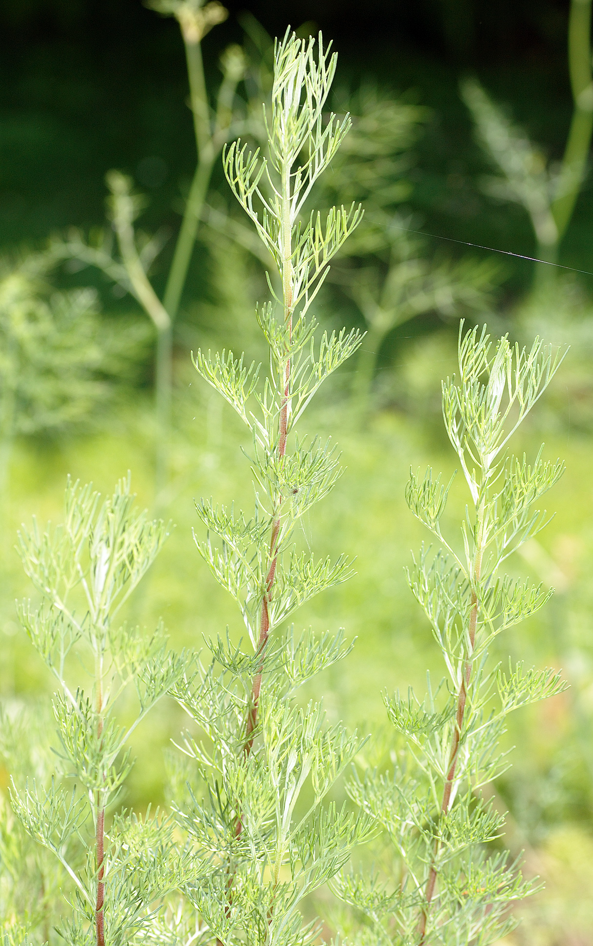 This image shows Southernwood (Artemisia abrotanum). It has been taken at the island Mainau.